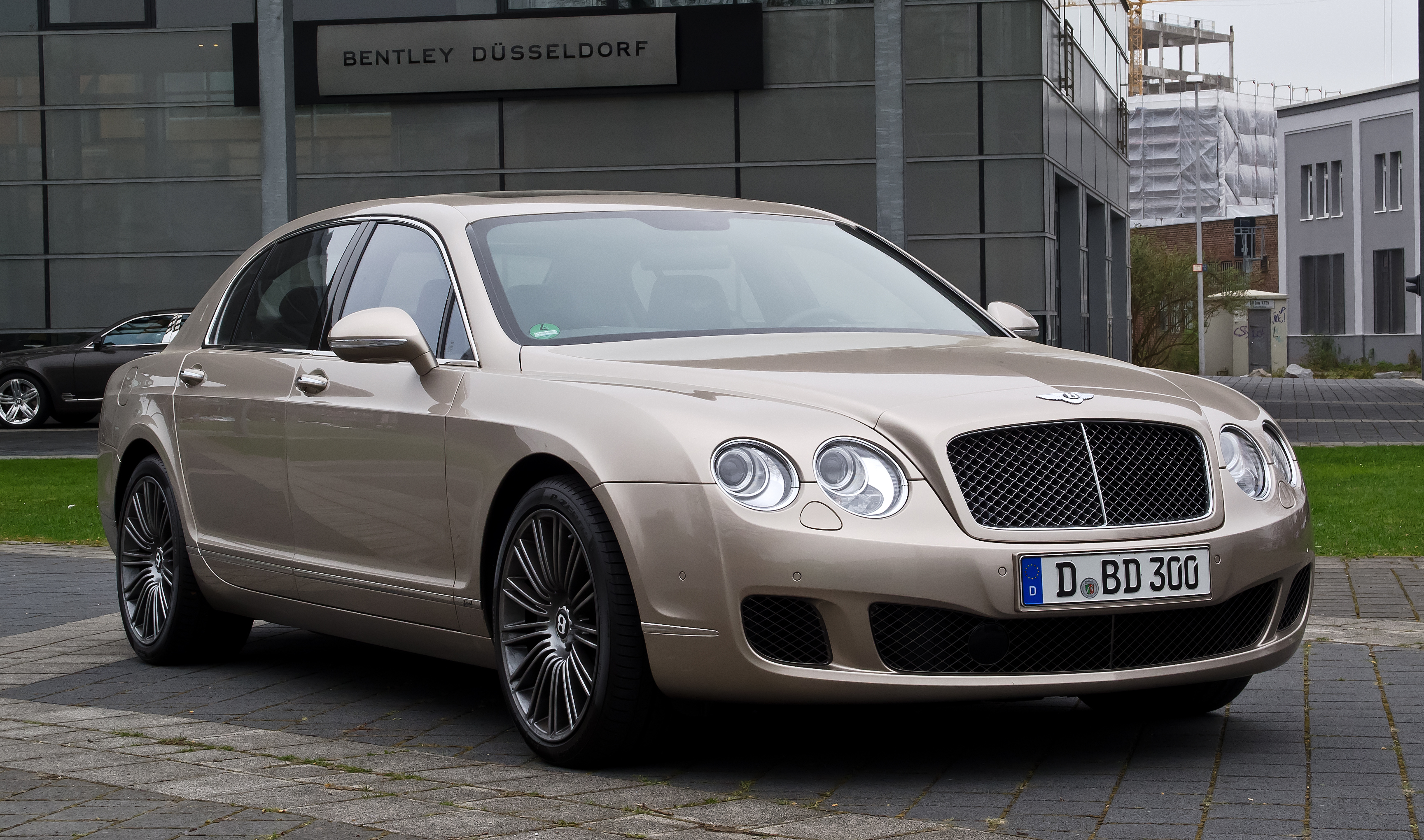 Bentley Continental Flying Spur Speed